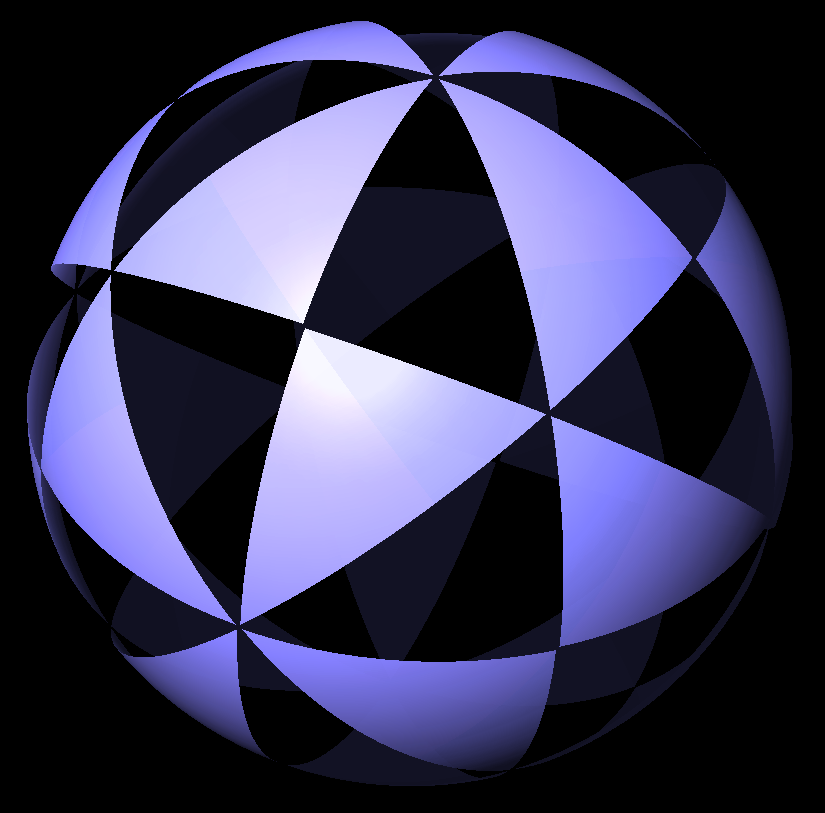 KaleidoTile, Topology and Geometry Software, Jeff Weeks Spherical domains for octahedral symmetry